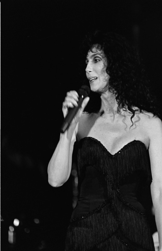 Cher at the Pediatric AIDS Foundation. She did a pocket show with five songs and talked about her split with bagel boy Rob Camilletti: "I just broke up with my boyfriend, so this next song ['We All Sleep Alone'] is particularly meaningful to me.")